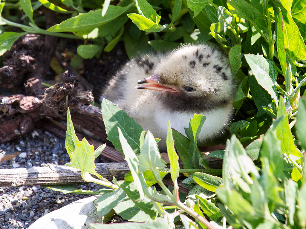 A Common Tern (Sterna hirundo) chick on a protected island off of the coast of Maine.